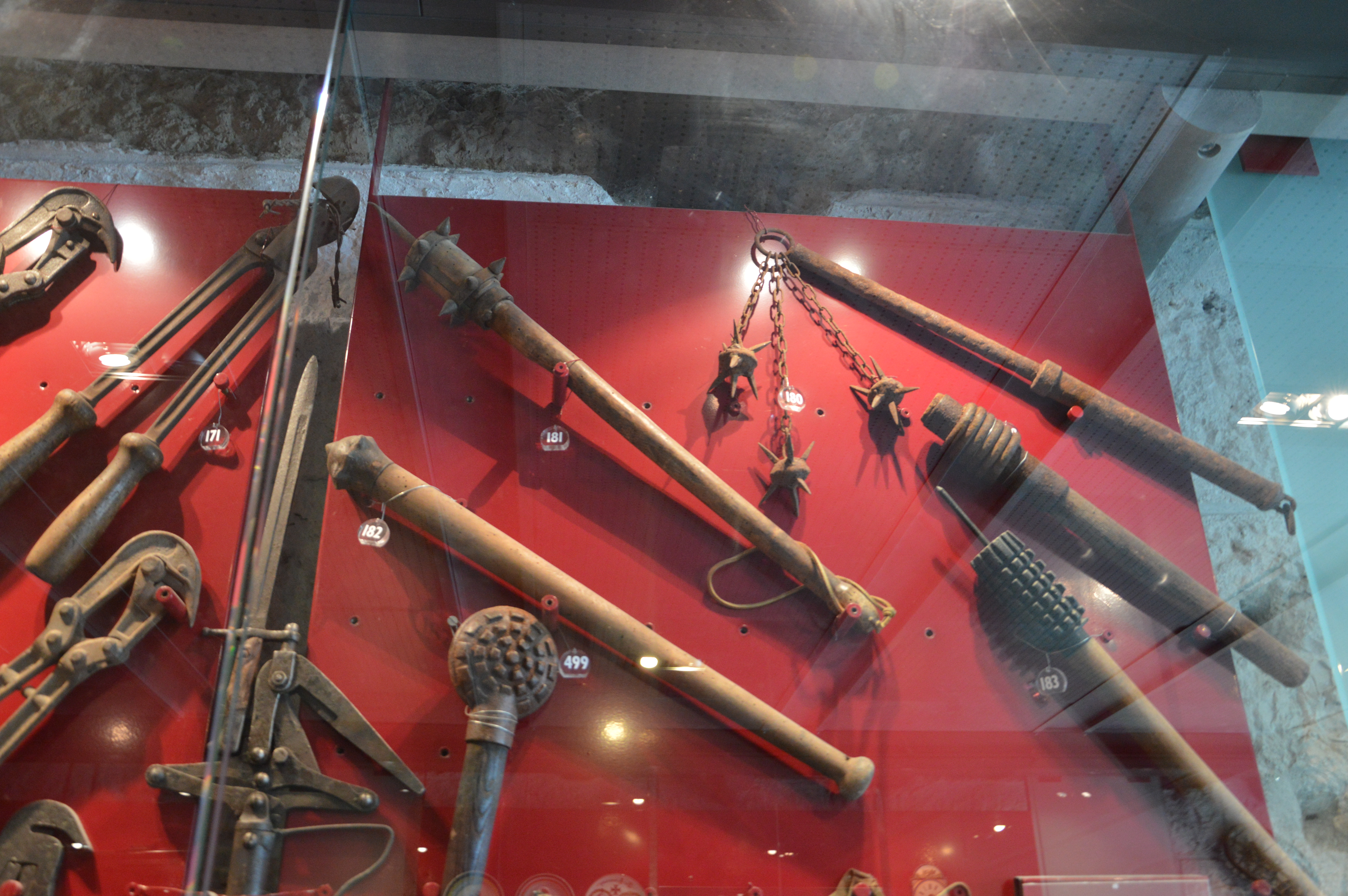 Wirecuttters (left) and maces (right, used to finish off enemy soldiers wounded by poisonous gas). Used in WWI, taken at the Tre Sassi museum at Passo di Valparola (Belluno)